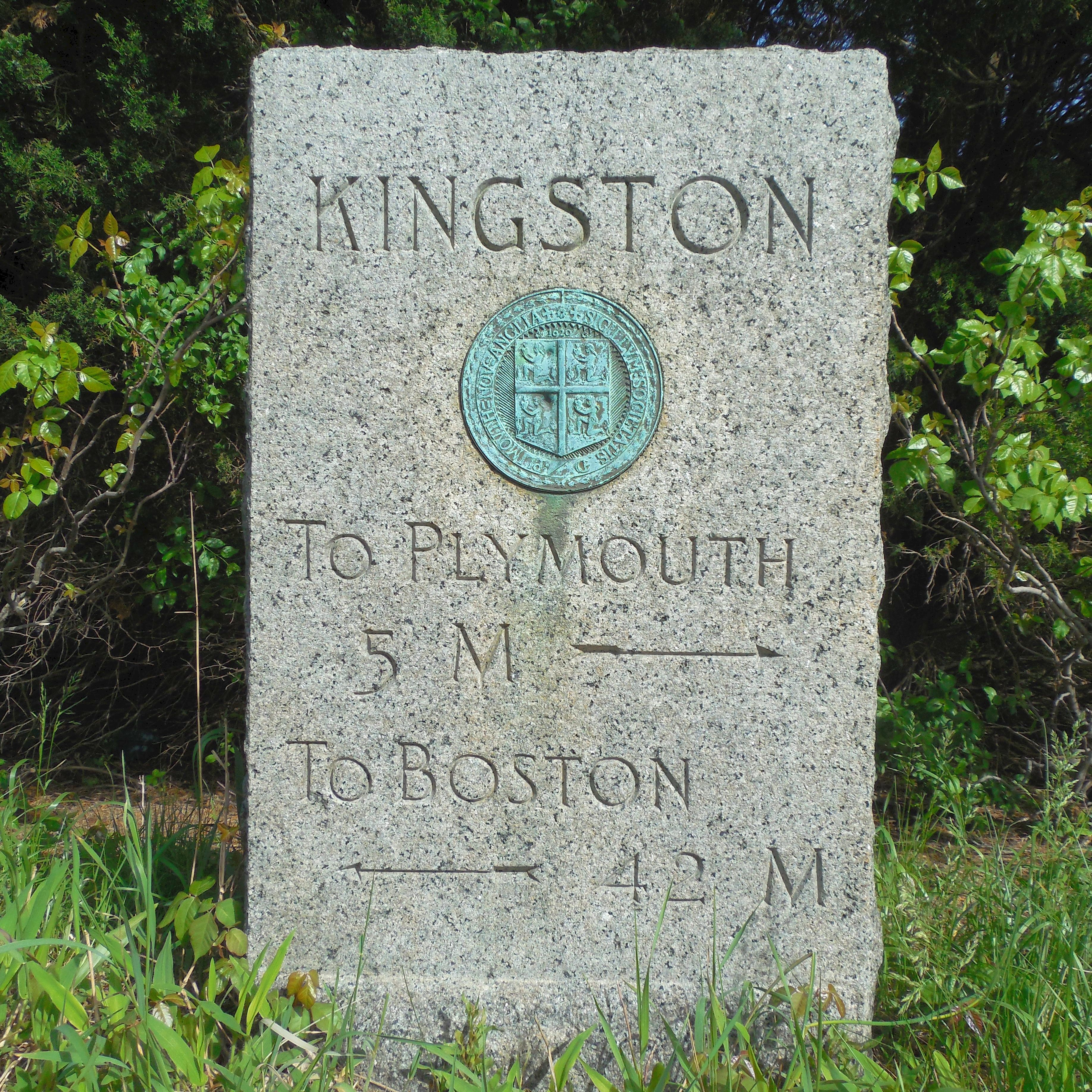 Granite milemarker installed on the 42nd parallel on Loring Street in Kingston, Massachusetts by the "Massachusetts Tercentenary Celebration Commission" during 1920.